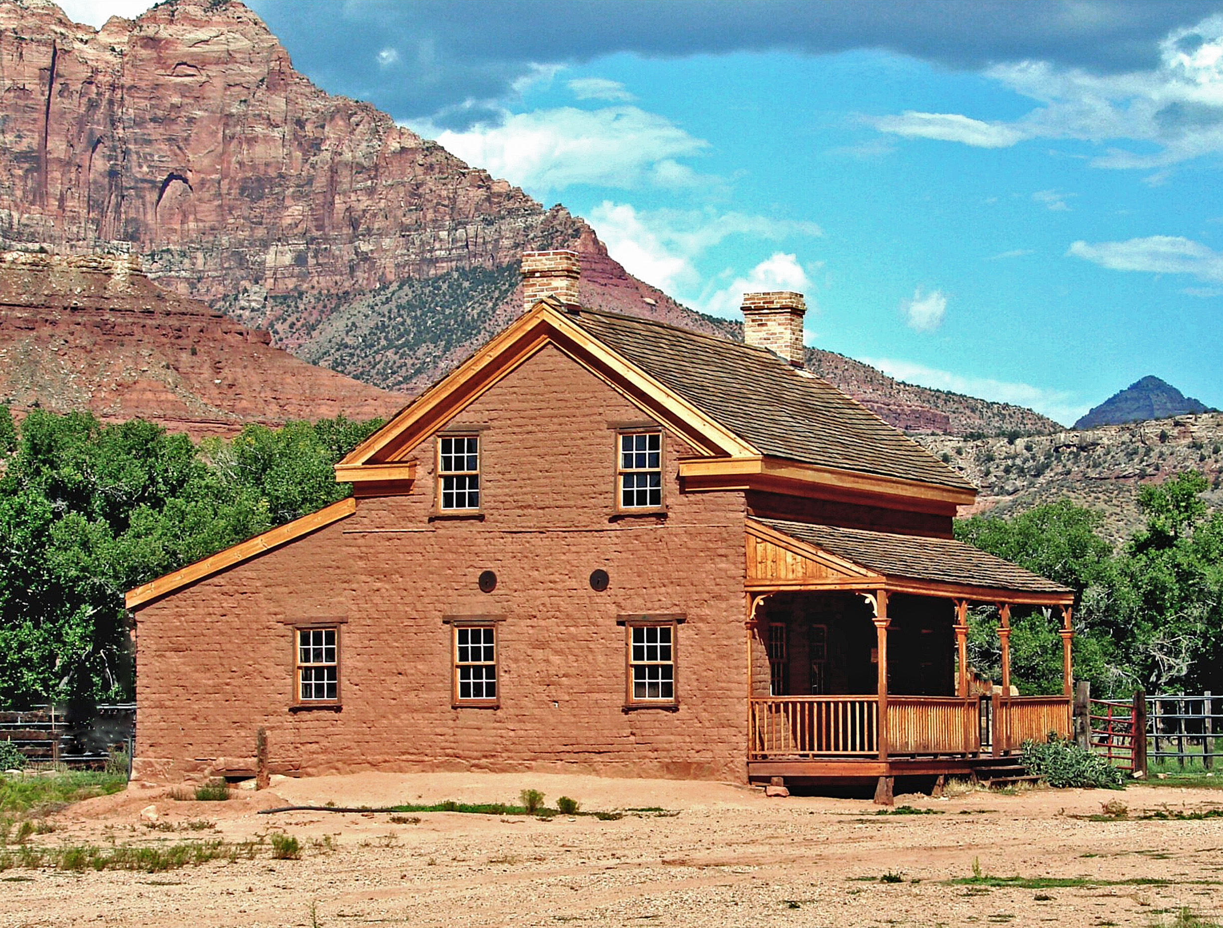 (1 in a multiple picture set) Located just south of Zion NP is this ghost Town. The Eagle Peaks make a grand backdrop and it is sad the town didn't survive. In the movie 'Butch Cassidy and the Sundance Kid,' Etta Place (played by Katherine Ross) lived in this house. The famous bicycle scene where Butch (Paul Newman) gives her a ride on the handle bars, is filmed in this yard.